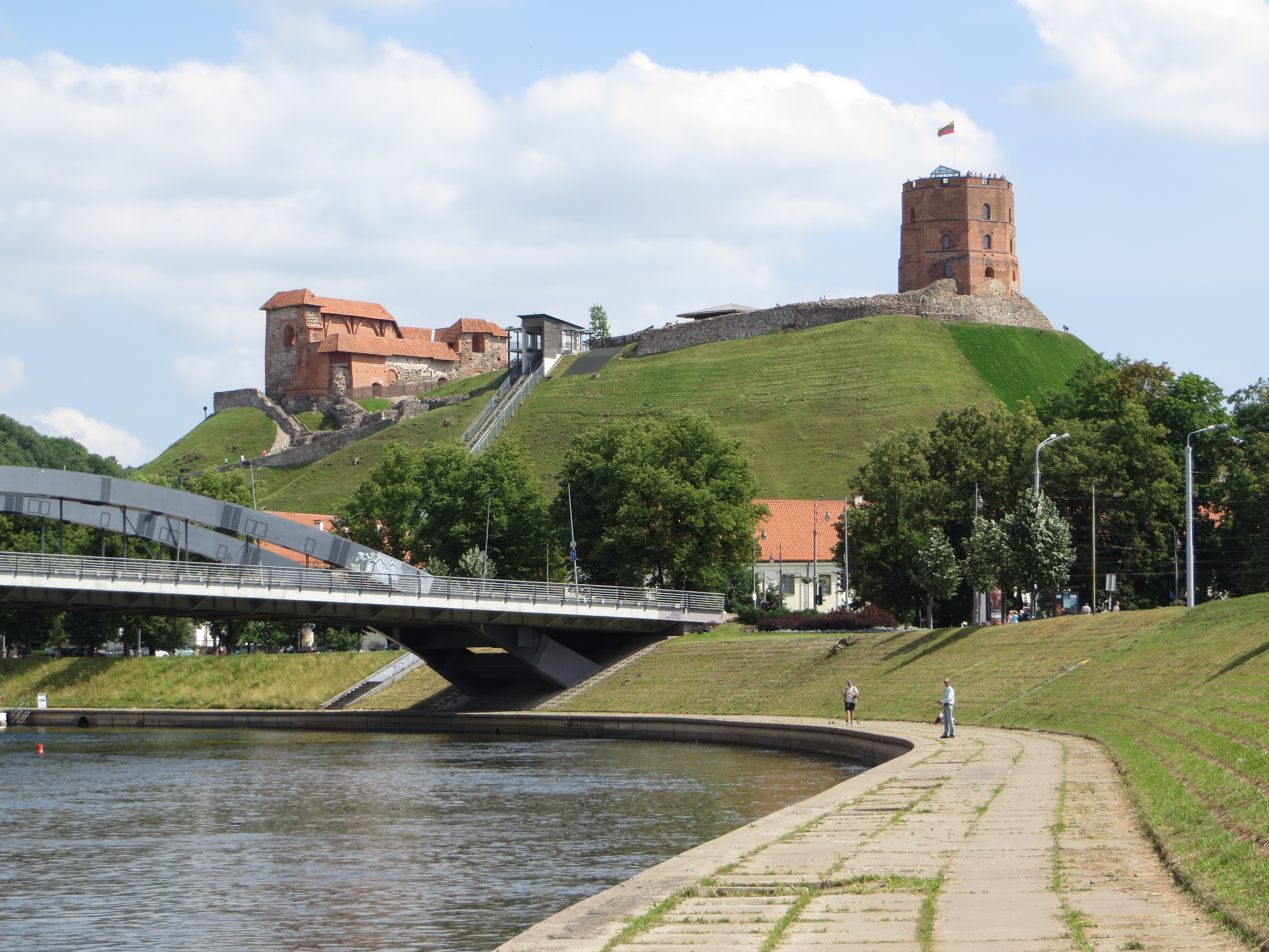 Not much remains of the former Upper Castle in Vilnius, Lithuania, except for Gediminas' Tower. The first fortifications of this castle were built out of wood on the orders of Gediminas, Duke of the Grand Duchy of Lithuania. Later the first brick castle was completed in 1409 by Grand Duke Vytautas. The 3-story Gerdimias' Tower, seen on the right, was actually rebuilt 1930, by polish architect Jan Borowski. Some remnants of the old castle have been restored, guided by archeological research.